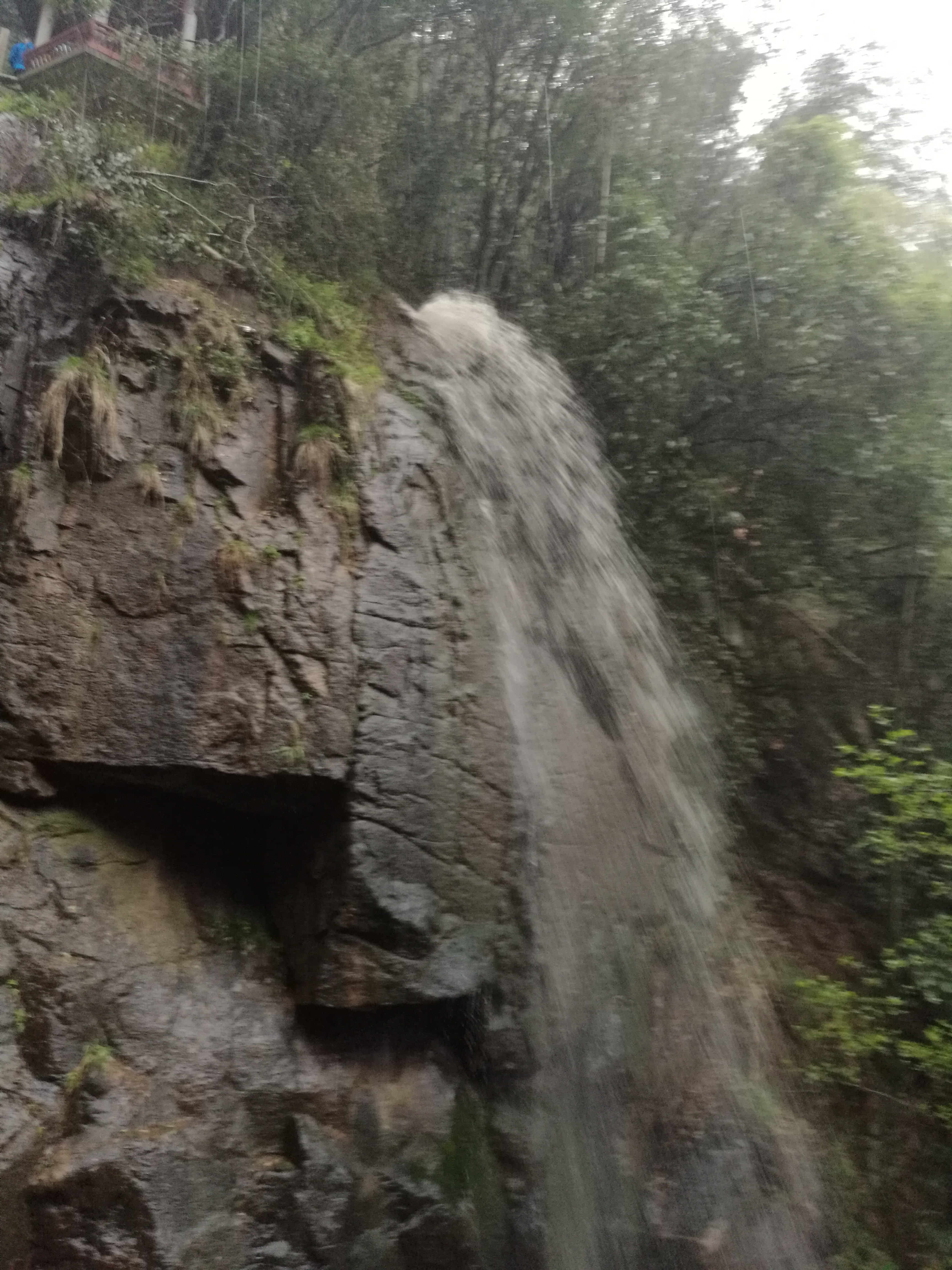 Mount Mogan Waterfall